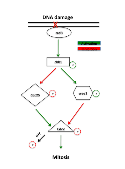 Signaling in the G2-M DNA damage checkpoint